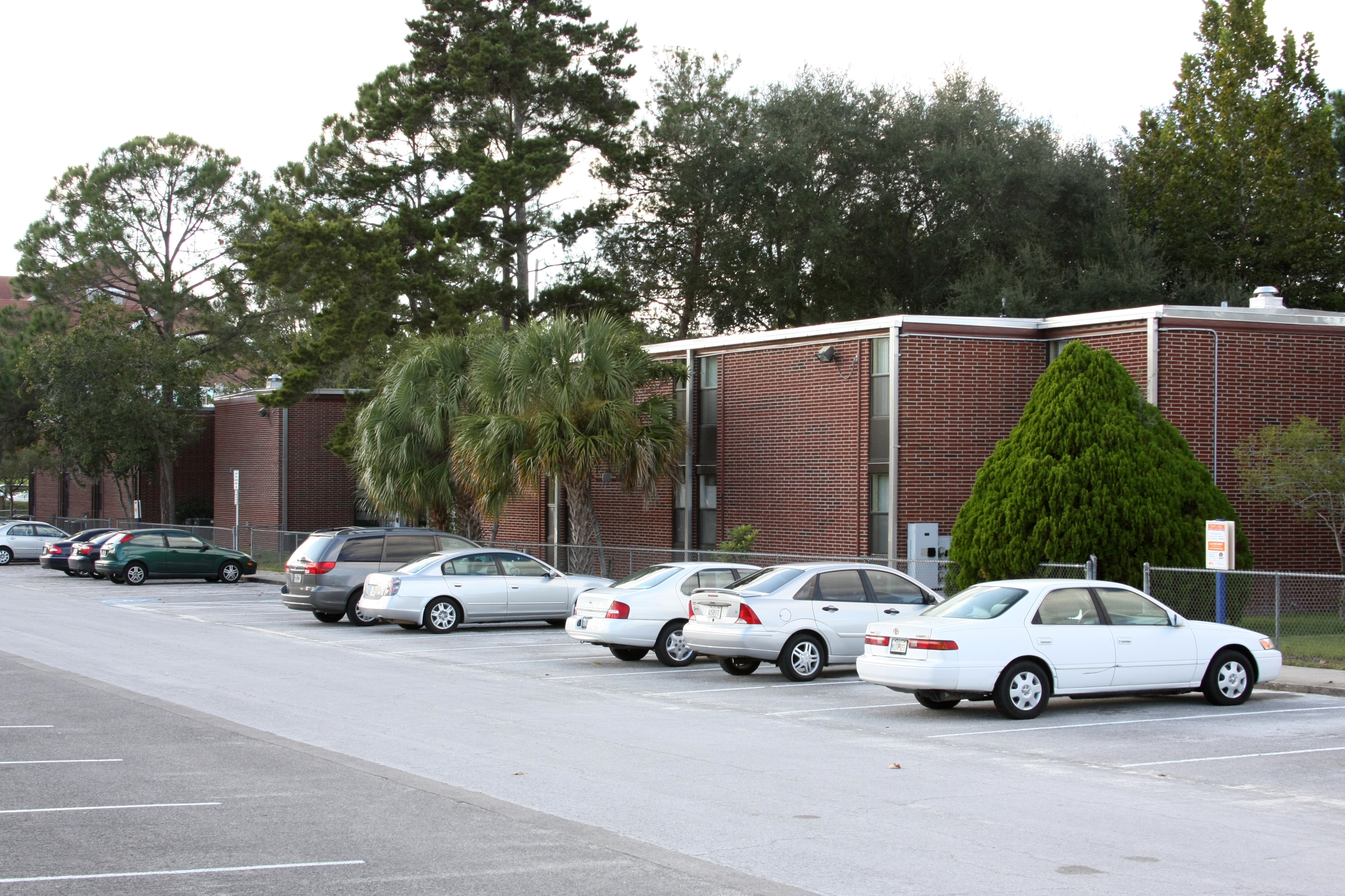 University Village Apartments at the University of Florida. Used for graduate and family housing.